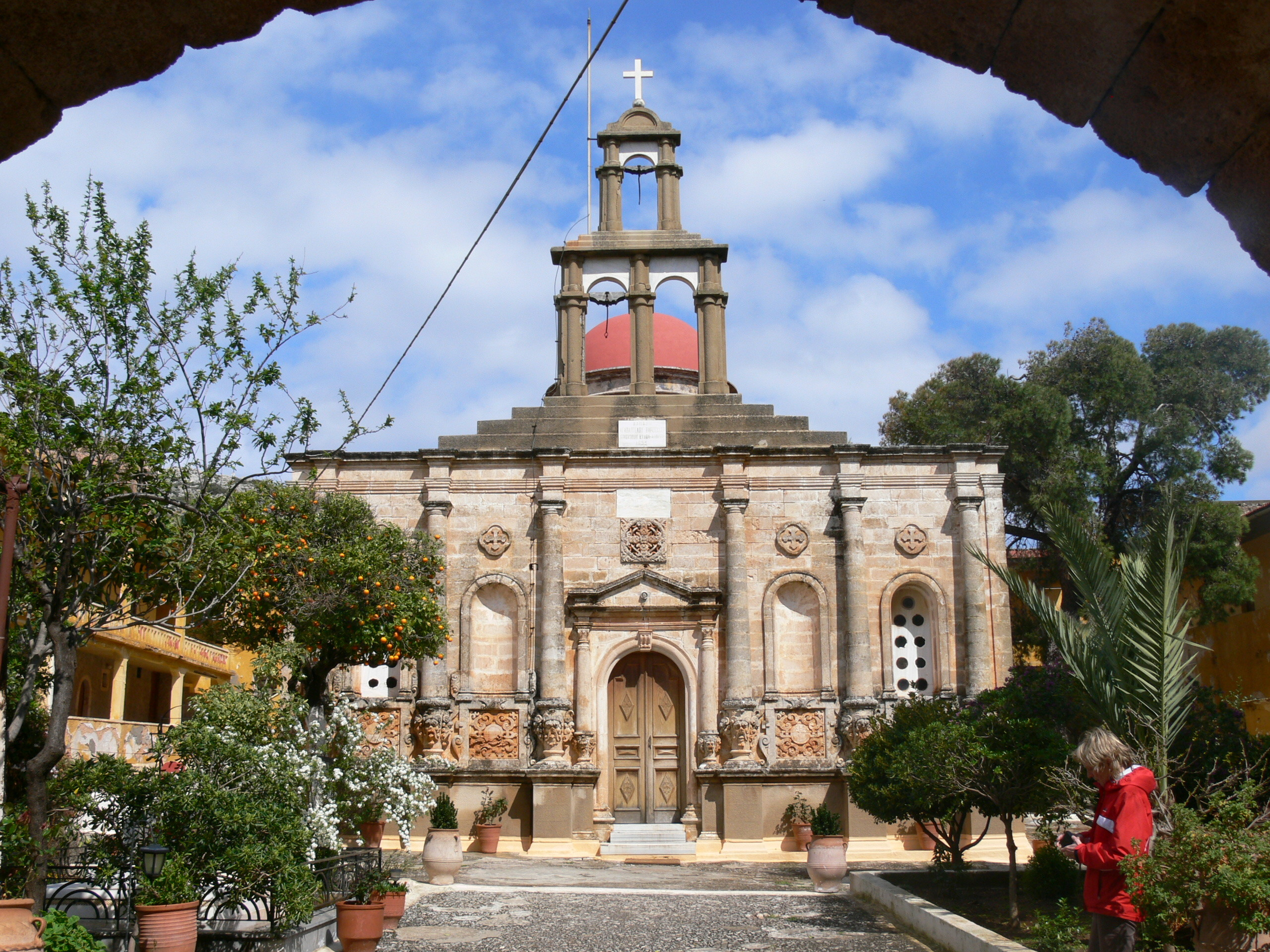 Gouvernetou monastery, Akrotiri ( Crete ). Facade of the monastery church.